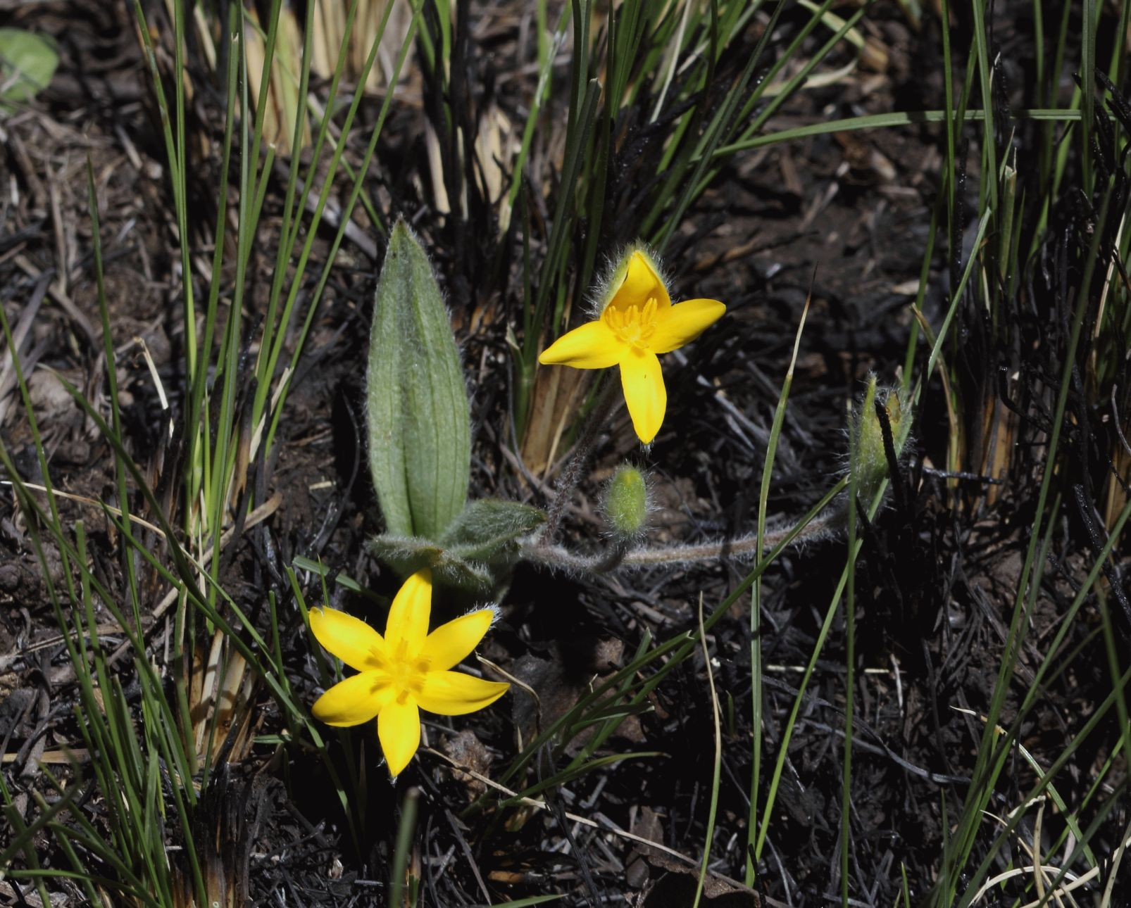 Hypoxis costata; in rocky grassland at Mount Gilboa, KwaZulu-Natal, South Africa.